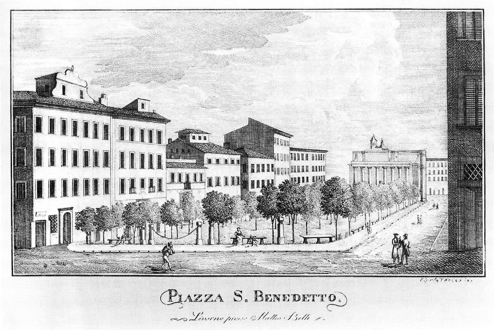 Piazza San Benedetto, Livorno, Italy - before 1881 Named today: Piazza XX Settembre Engraving by Carlo Verico inc. (firmed at the right side) Public domain: live dates of author, engraver Carlo Verico are unknown, but he worked in Livorno, Tuscany already in the 1st half of the 19. century. - creation date unknown, but surely before 1881, as in that year the square was renamed.